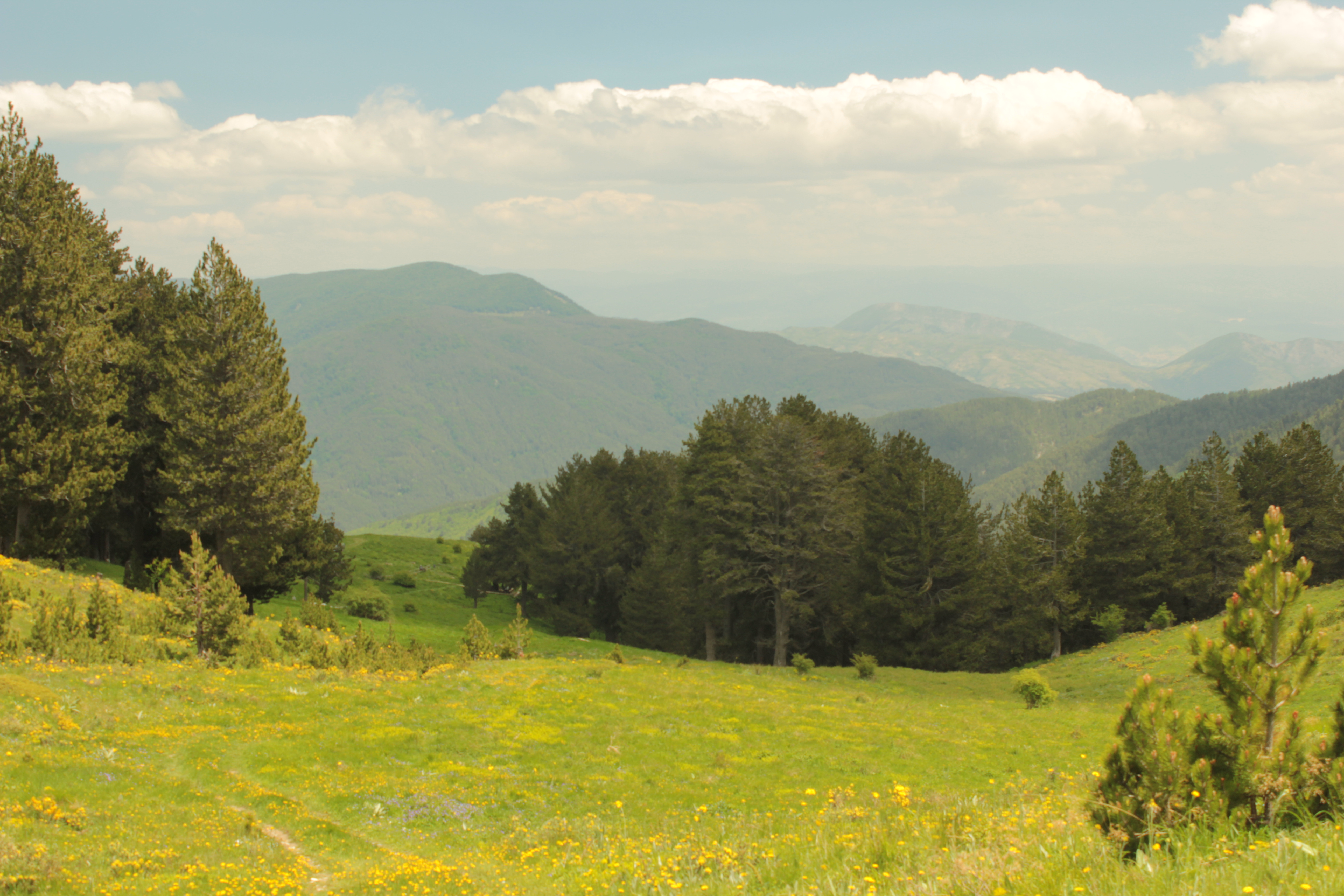 The national reserve Ali Botush in Bulgaria